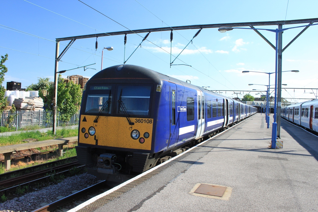 A Greater Anglia train for London is ready to start its journey from Clacton-on-Sea in Essex. It is formed of units 360108 and 36011.